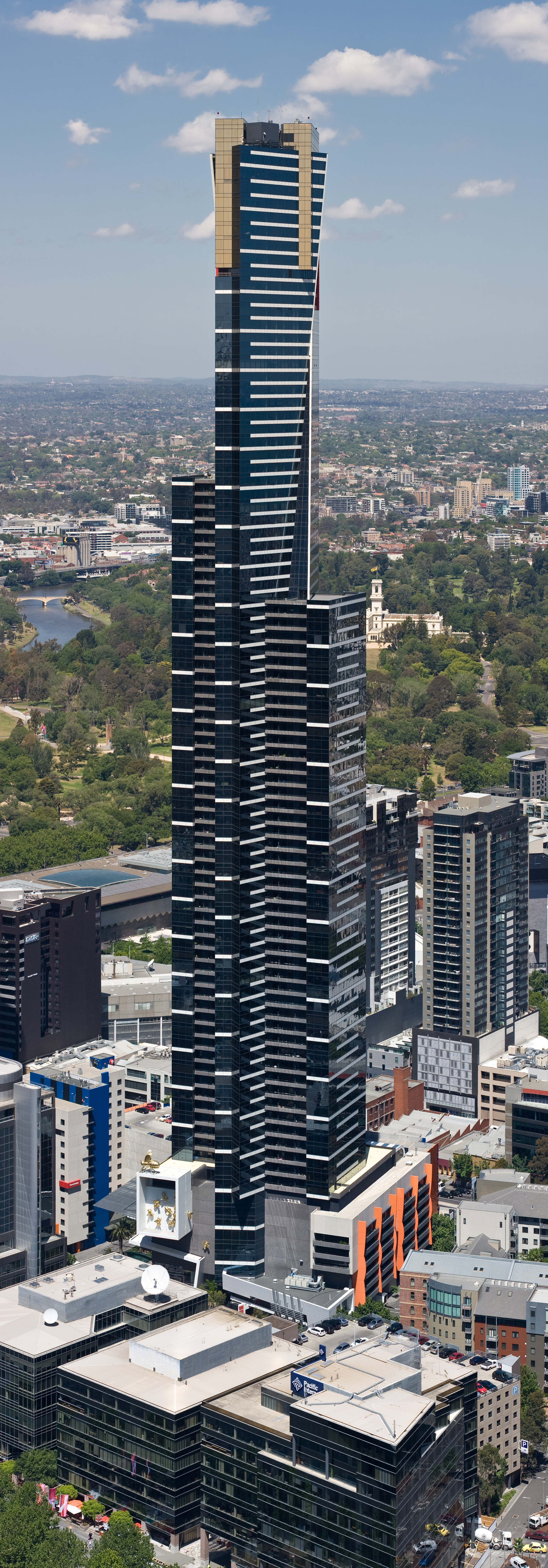 Eureka Tower as viewed from Rialto Towers.